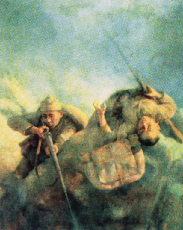 Kale grotoTürkçe: Yunanların gözünden Türk Kurtuluş Savaşı'nın Batı Cephesi ("Küçük Asya Felaketi")